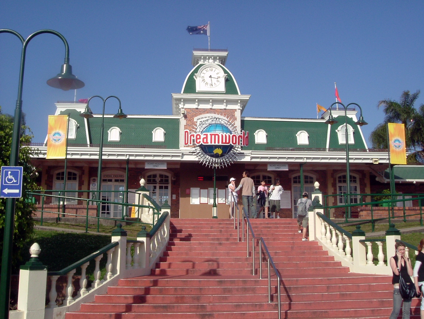 The Dreamworld entrance in late 2006. In early 2006, an additional ticket booth was added in the centre under the three-dimensional logo. This can be seen in the photo.